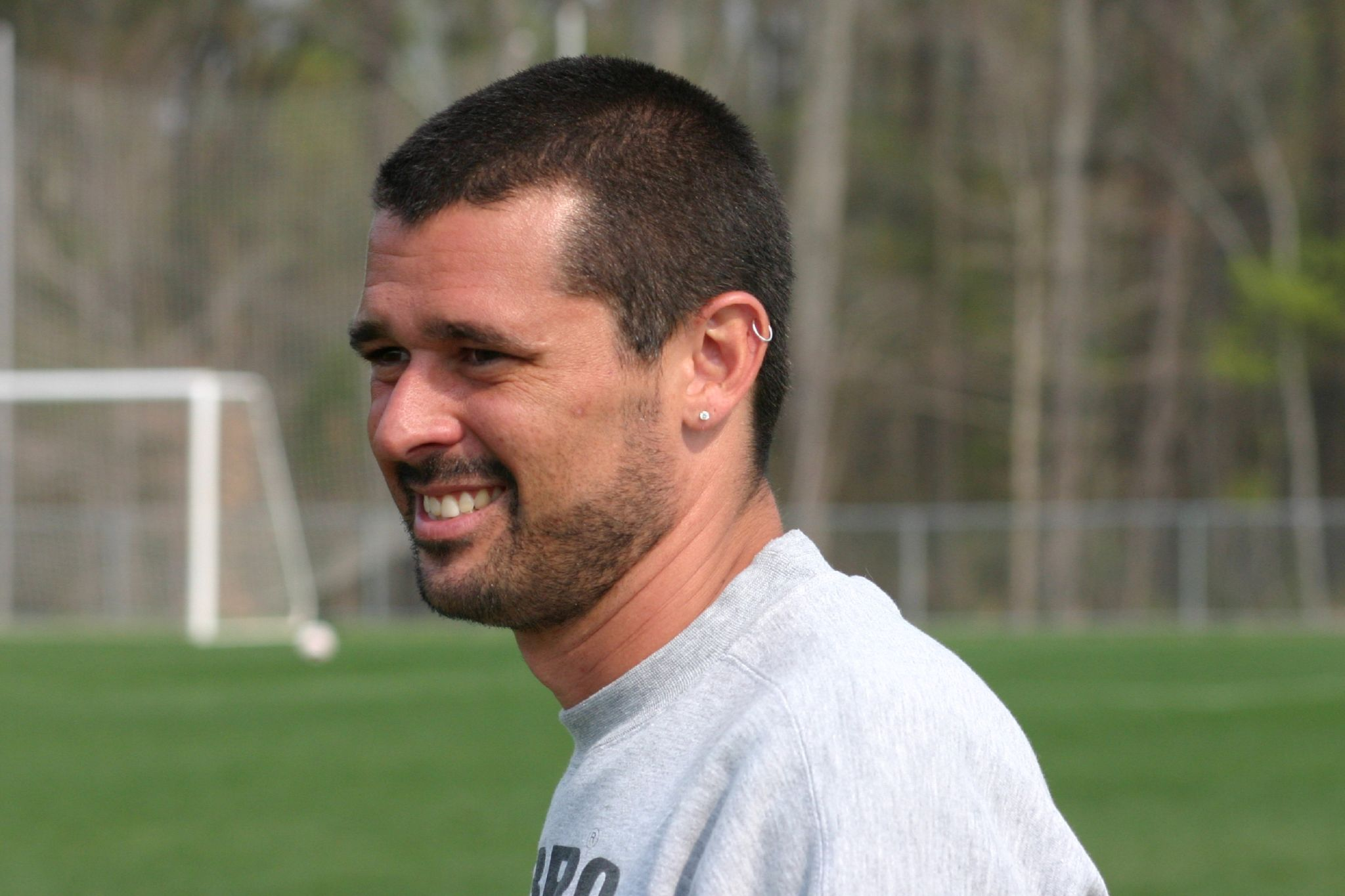 Photo by W. Jarrett Campbell uploaded to Flickr under Creative Commons